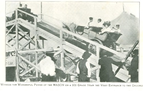 To promote the Mason 24 HP its manufacturer offered public 50 % grade climbs on a ramp erected at the Iowa State Fair in 1910. The Event was found remarkably enough to be remembered by a postcard.